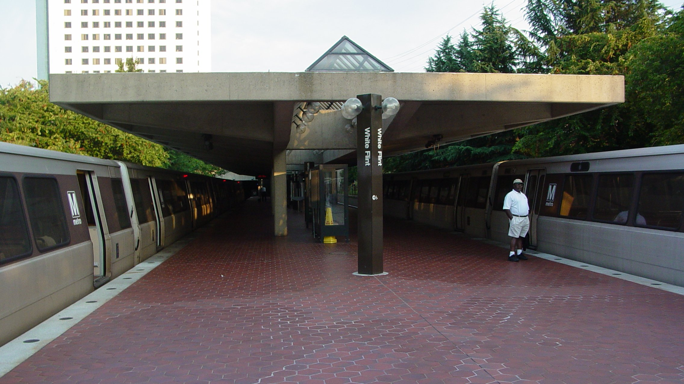 White Flint Metro station